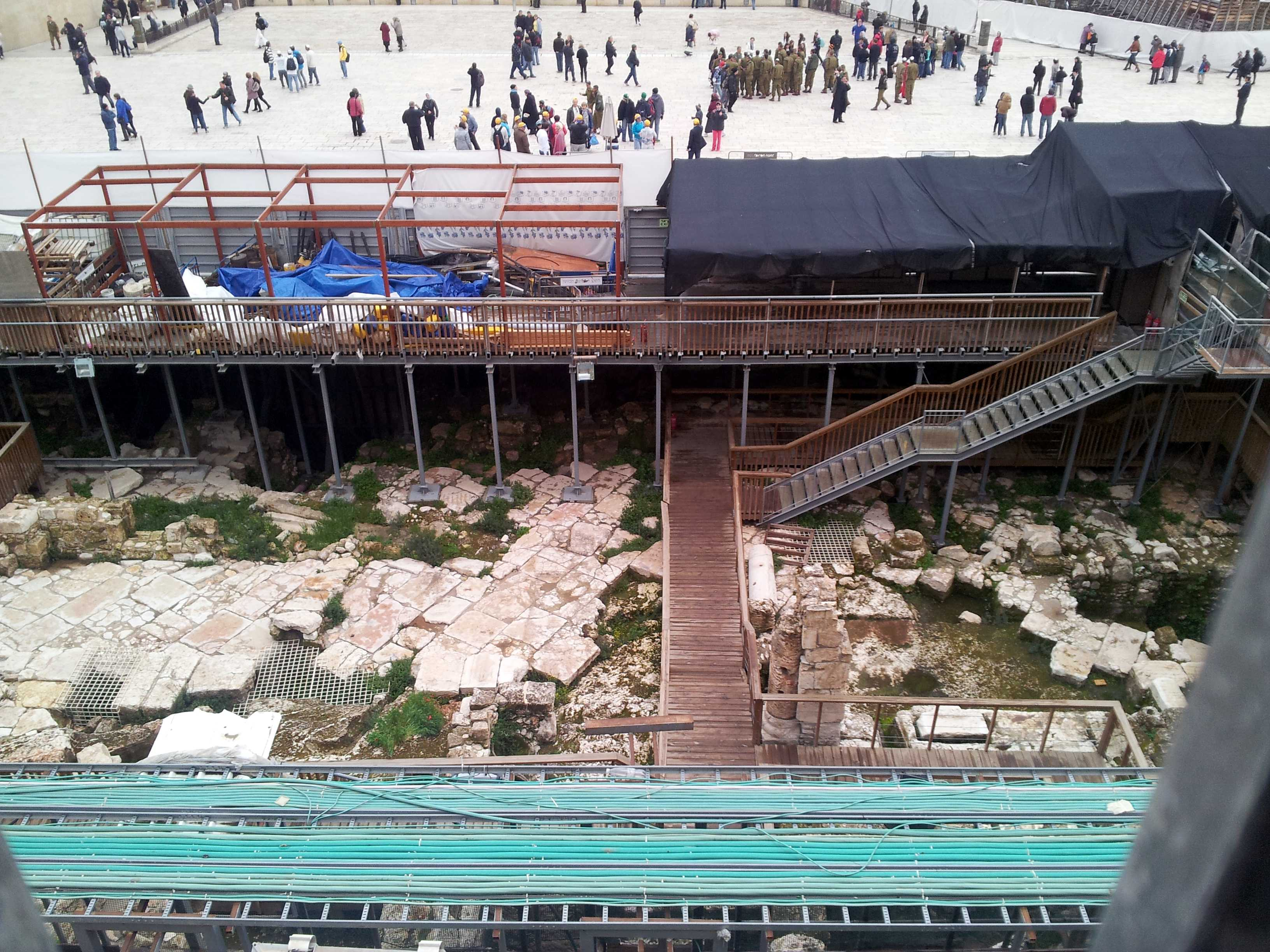 Eastern Cardo Jerusalem in the Western Wall Plaza.